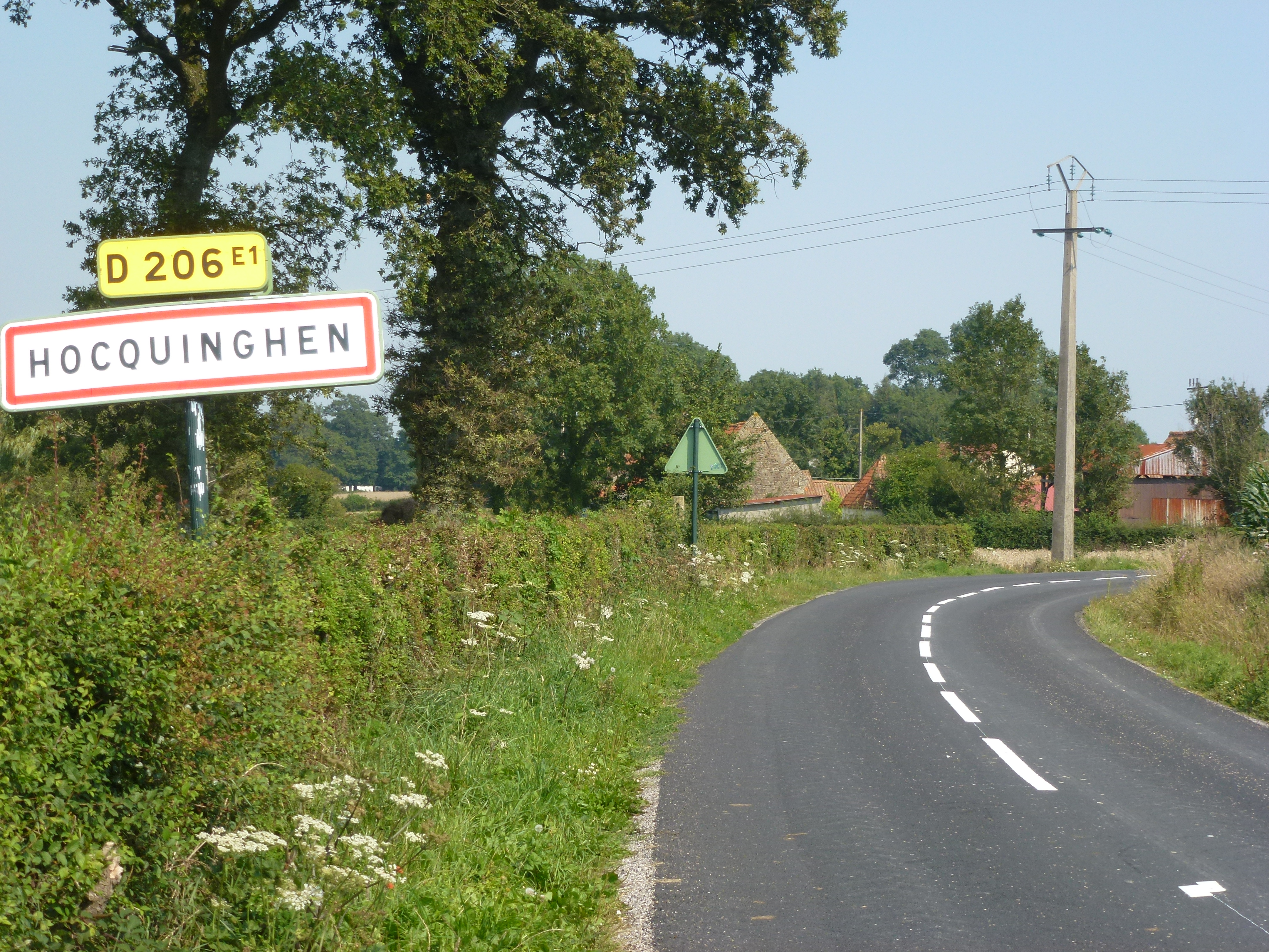 Hocquinghen (Pas-de-Calais) city limit sign